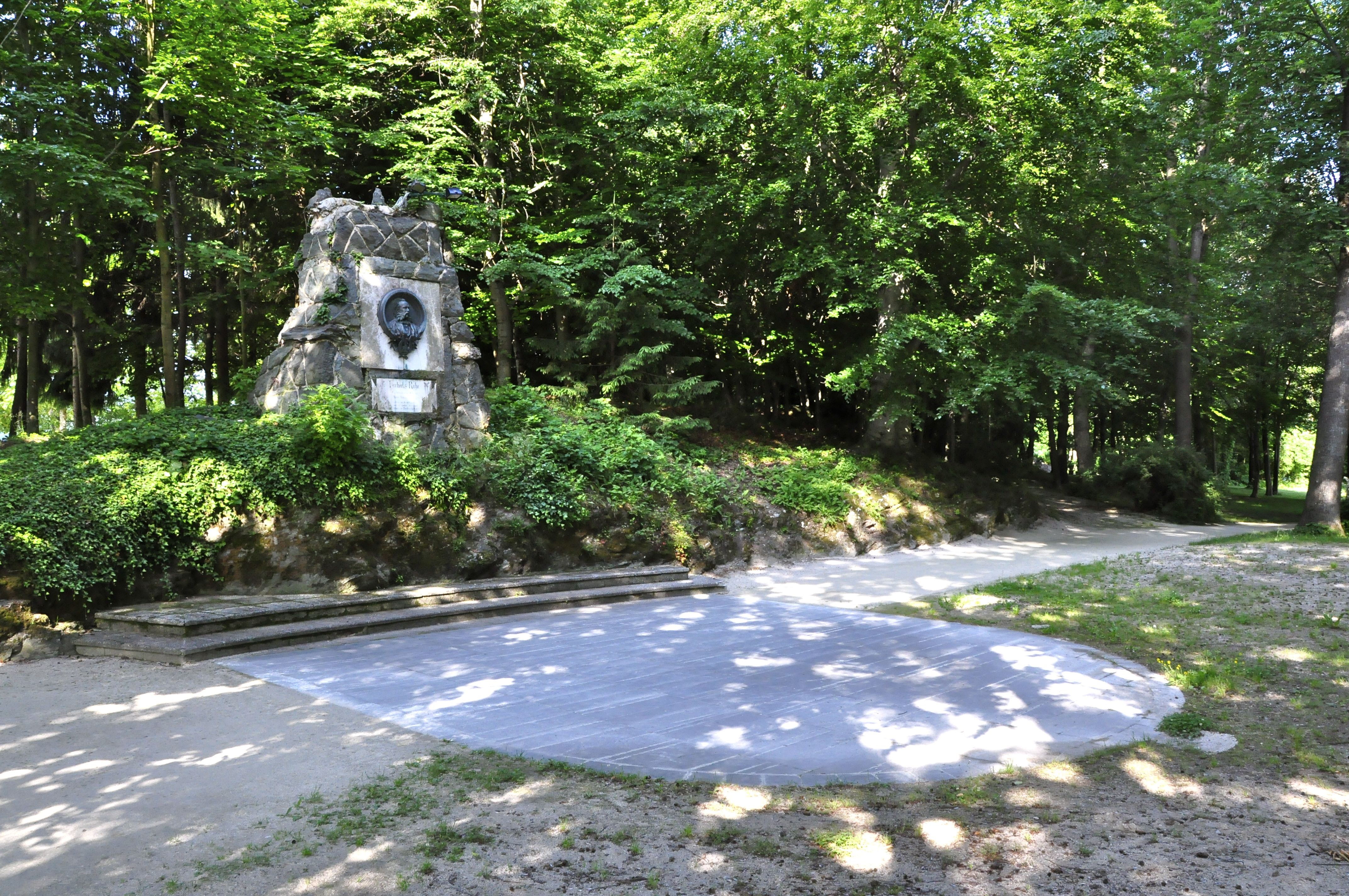 Monument, created by Josef Valentin Kassin, dedicated to the Austrian conductor and composer Johann Ritter von Herbeck on the alameda at the peninsula promenade, municipality Pörtschach am Wörther See, district Klagenfurt Land, Carinthia, Austria, EU